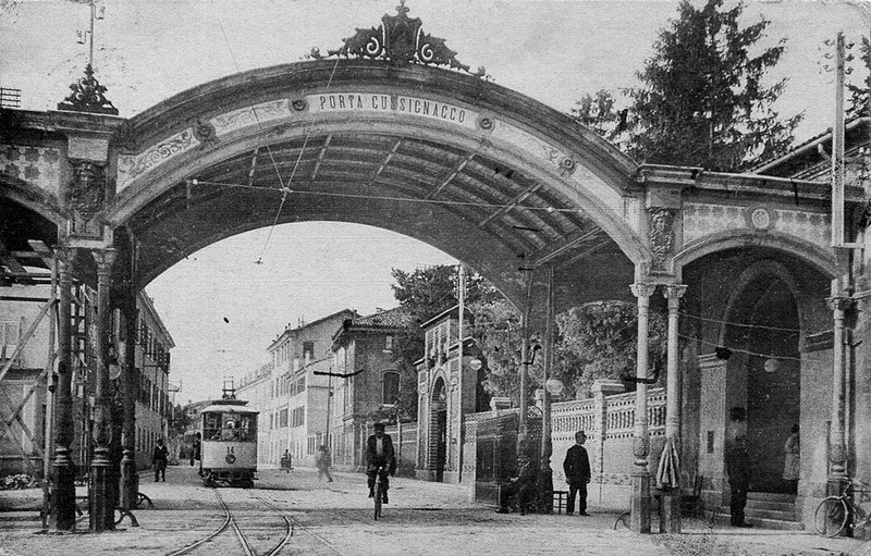 Porta Cussignacco 1910, Udine